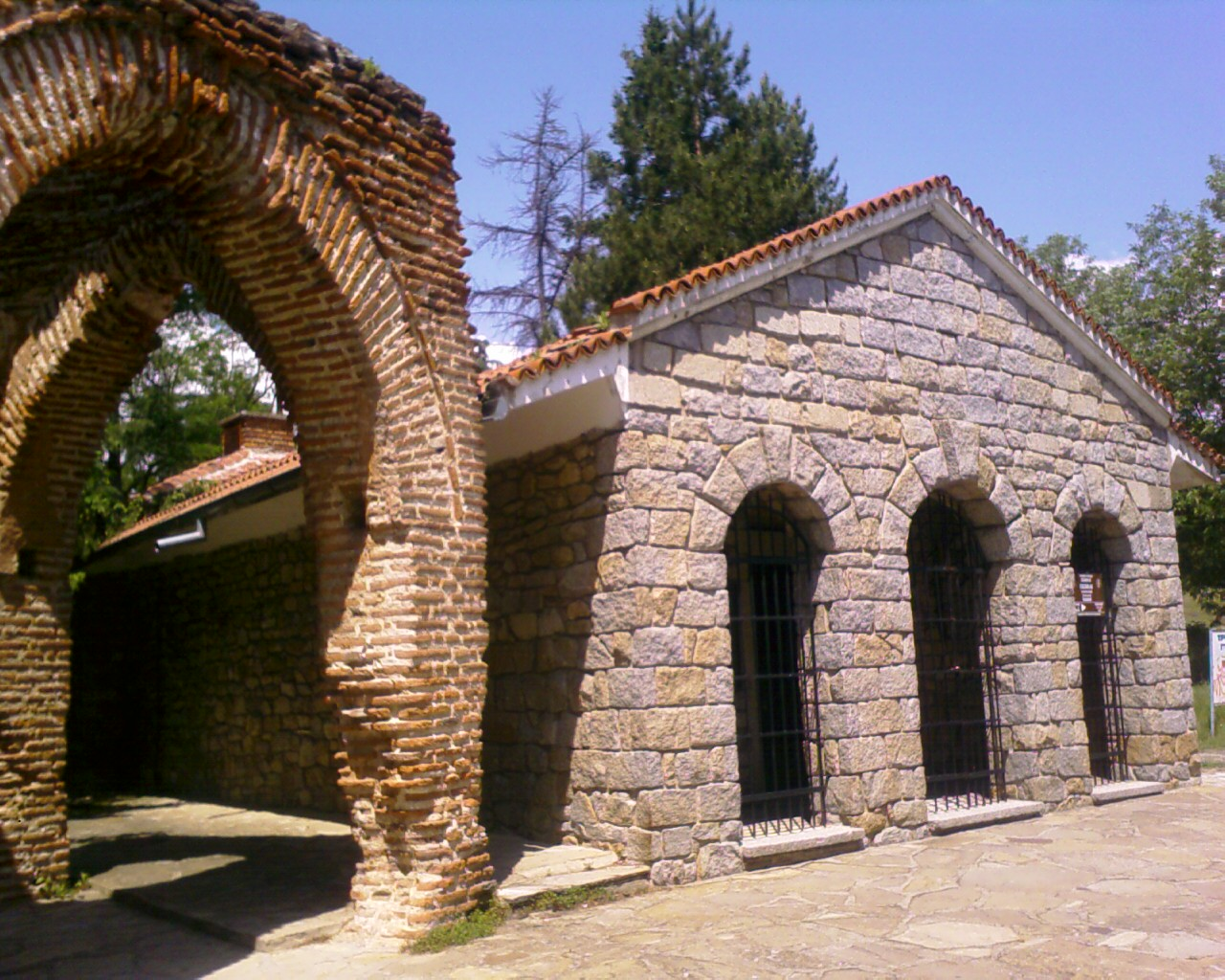 The thracian tomb in Kazanlak, looked from outside